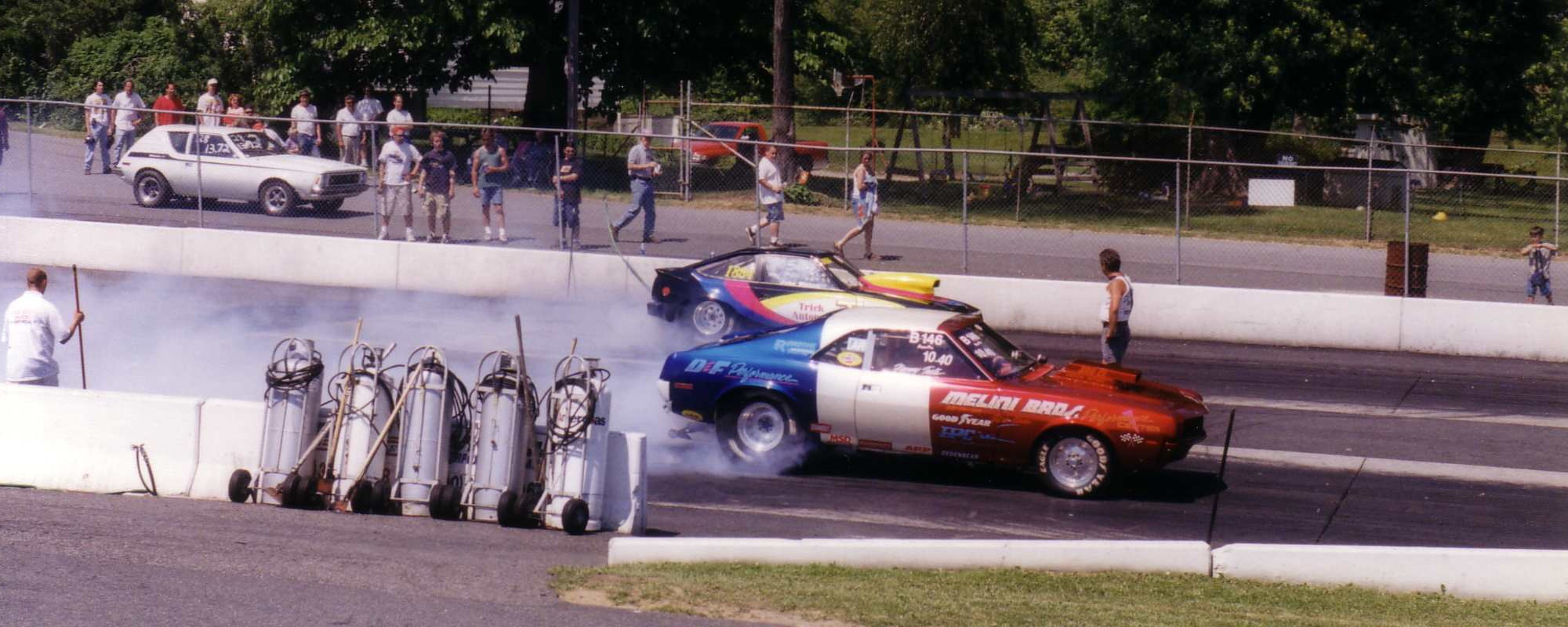 1970 AMC Javelin in a dragrace against a 1979-83 AMC Spirit at a strip in Maryland. Also visible in the background is a 1973 AMC Gremlin X.